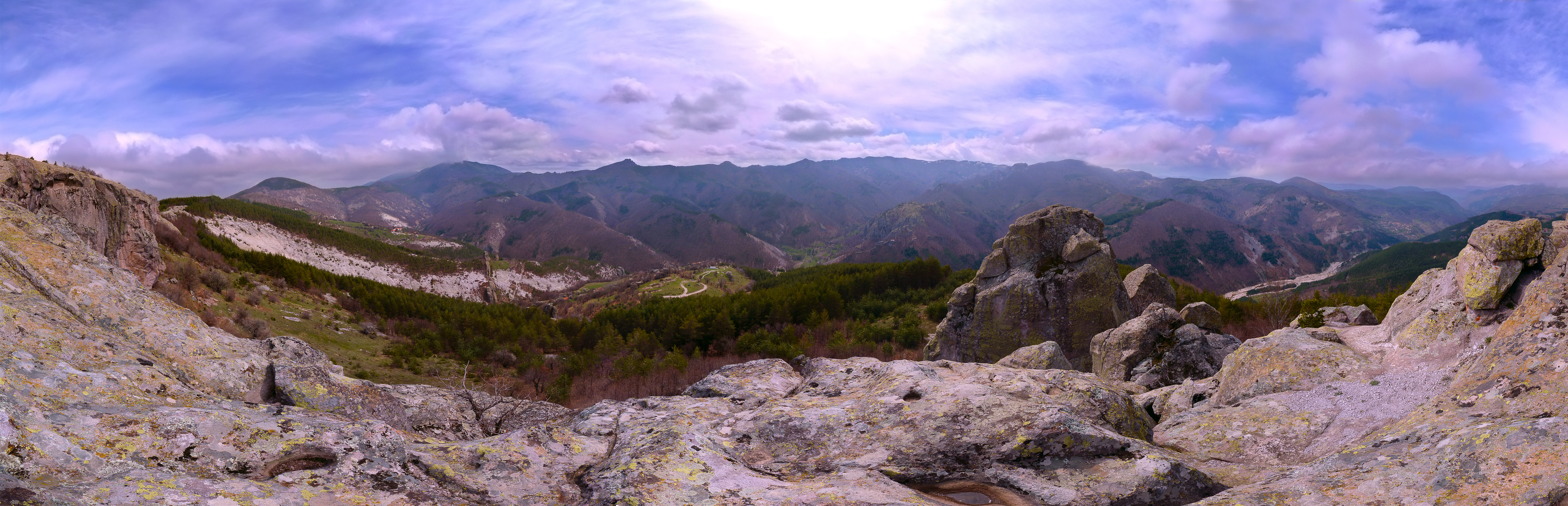 Belintash ~350° panoramic view